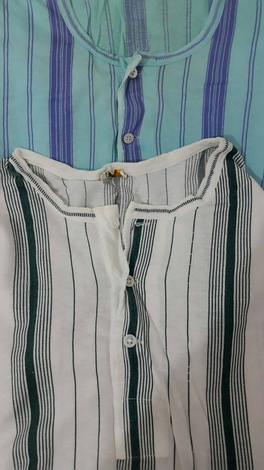 لباس تقليدي تونسي